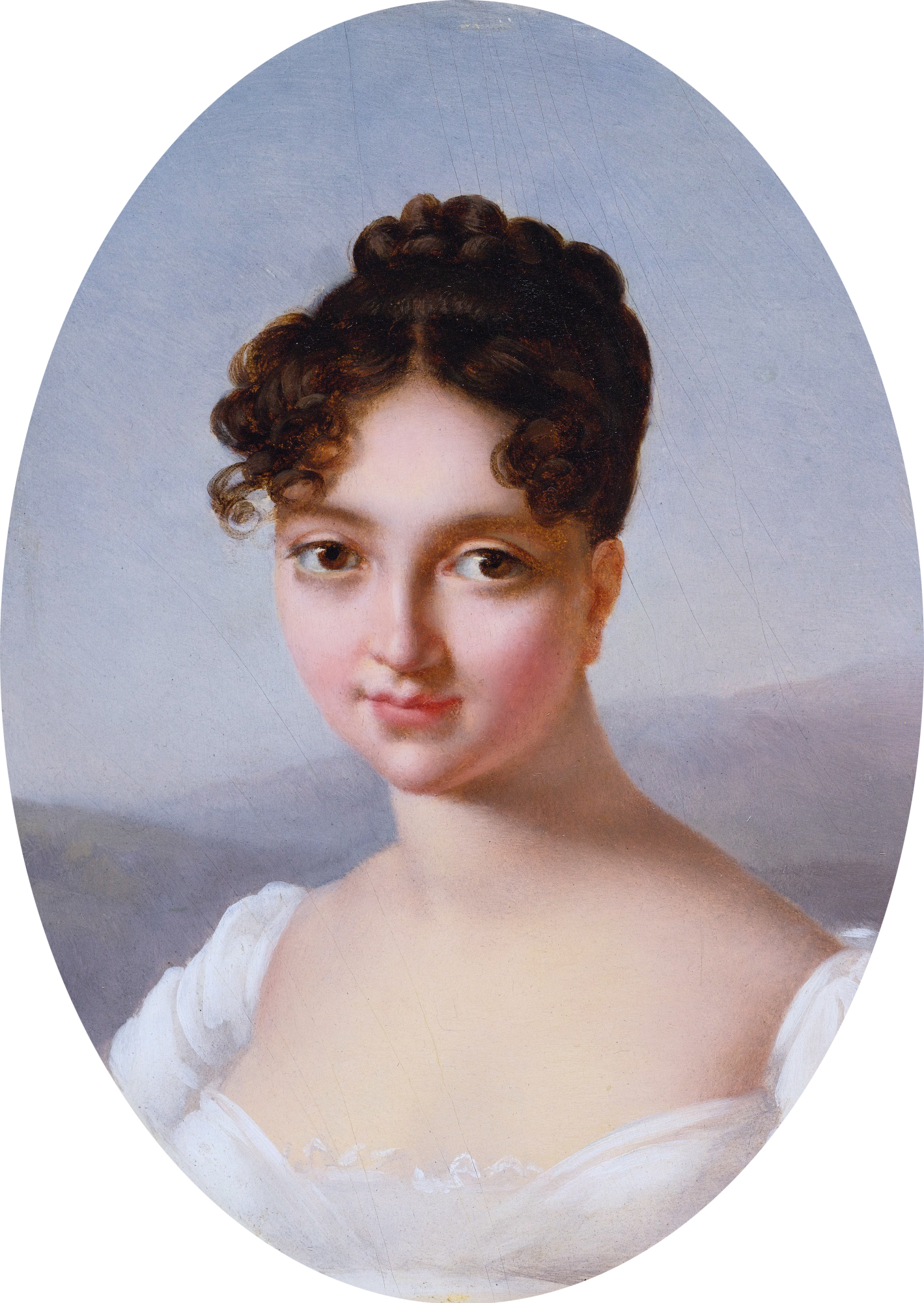 Self portrait oil on panel 21.8 x 16 cm inscribed verso: Peint par Mme Jaquotot